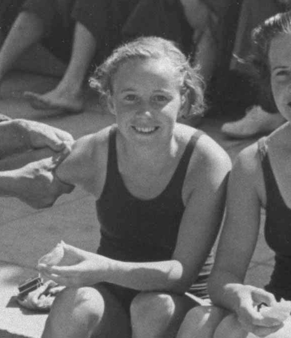 Ann-Margret Nirling at the Berlin Olympics